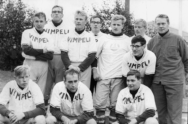 Vimpelin Veto pesäpallo team 1965.